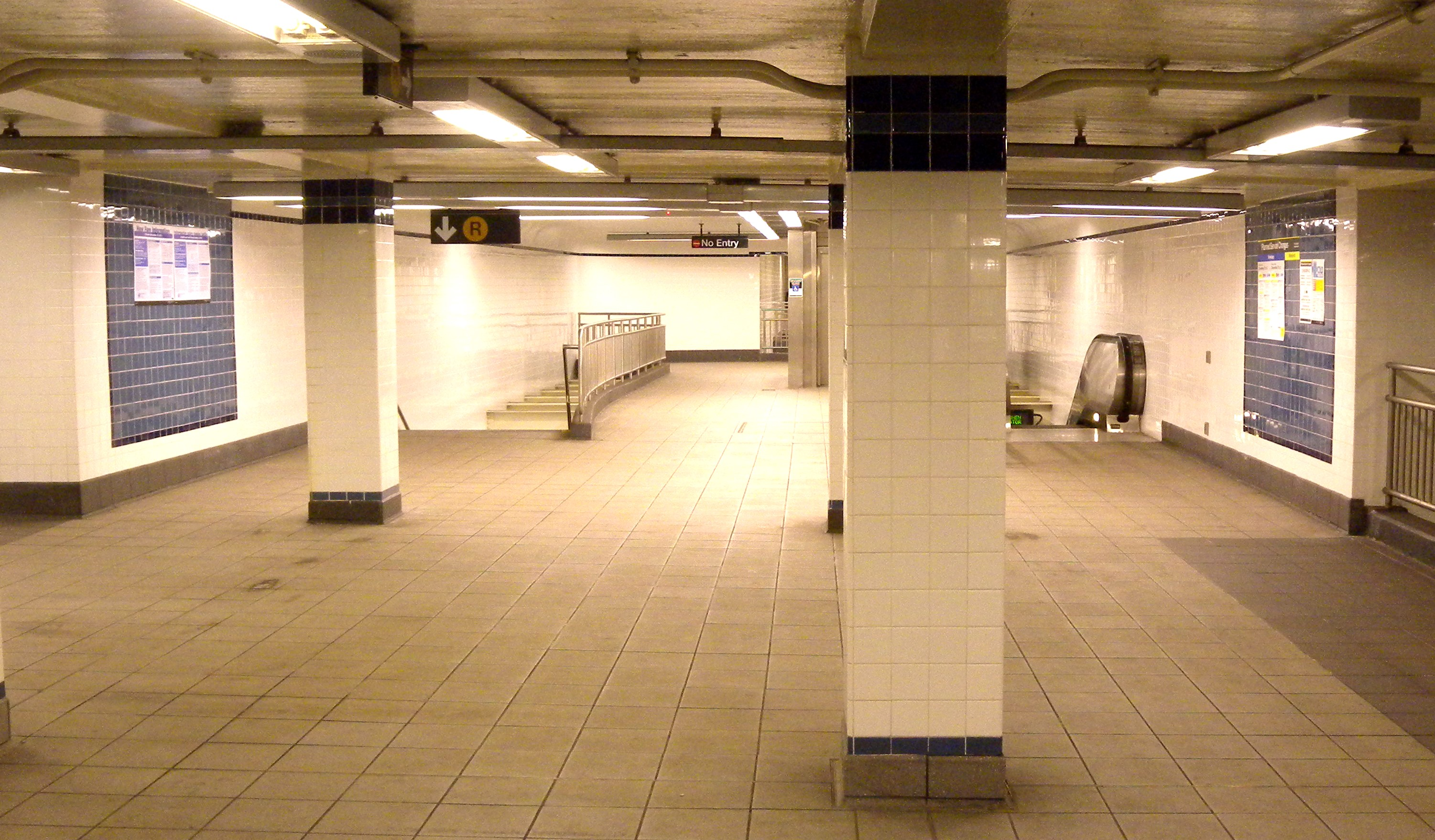 Looking east from Jay St turnstiles at passage to BMT platforms.